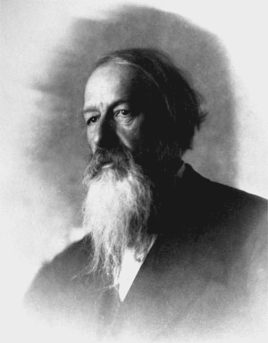 Vladimir Vasilyevich Stasov (1824-1906), the largest Russian art and music critic.